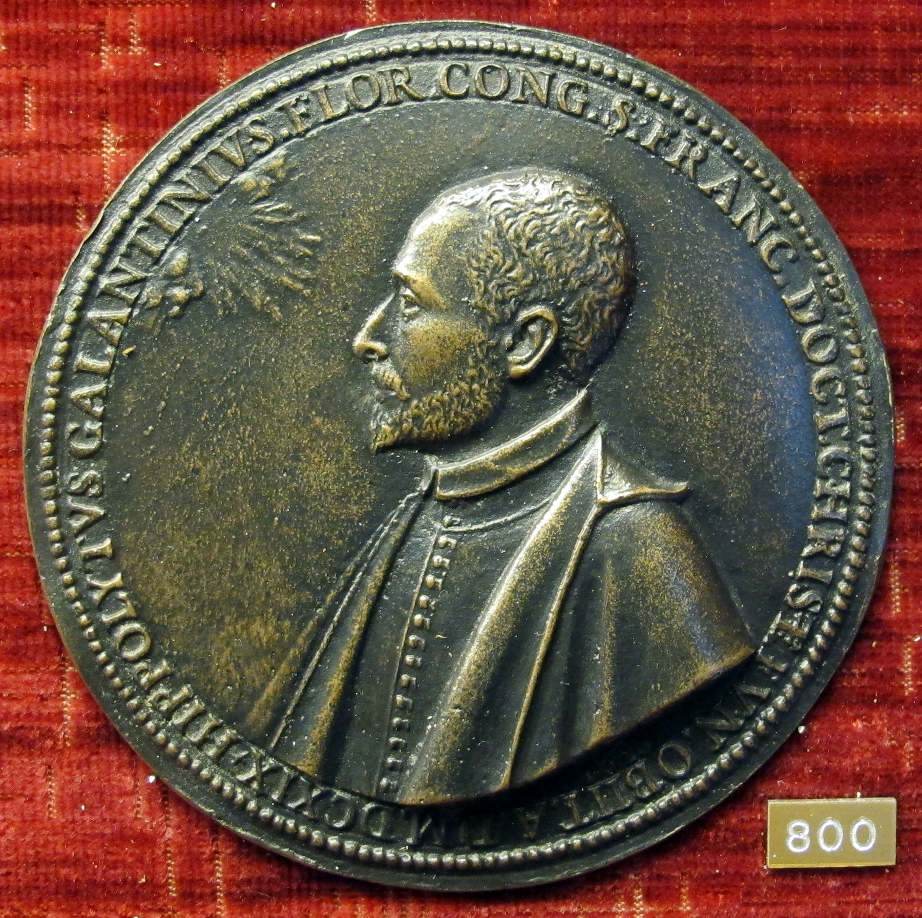 Rococo medal of Florence